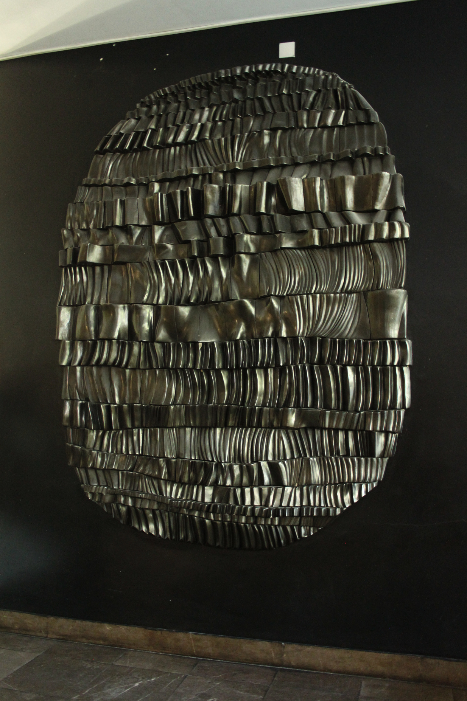 Antoni Starczewski's sculpture "Library" in the lobby of the old library building of the of the University of Lodz (September 2018)